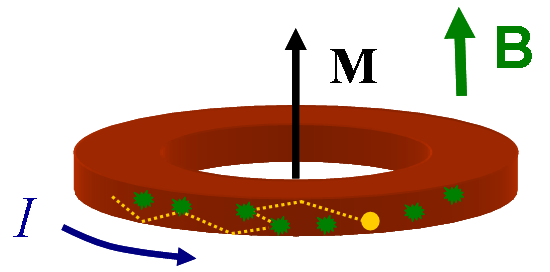 The image shows a schematic of a persistent current ring with arrows indicating the ring's current, the ring's magnetic moment, and the applied magnetic field.